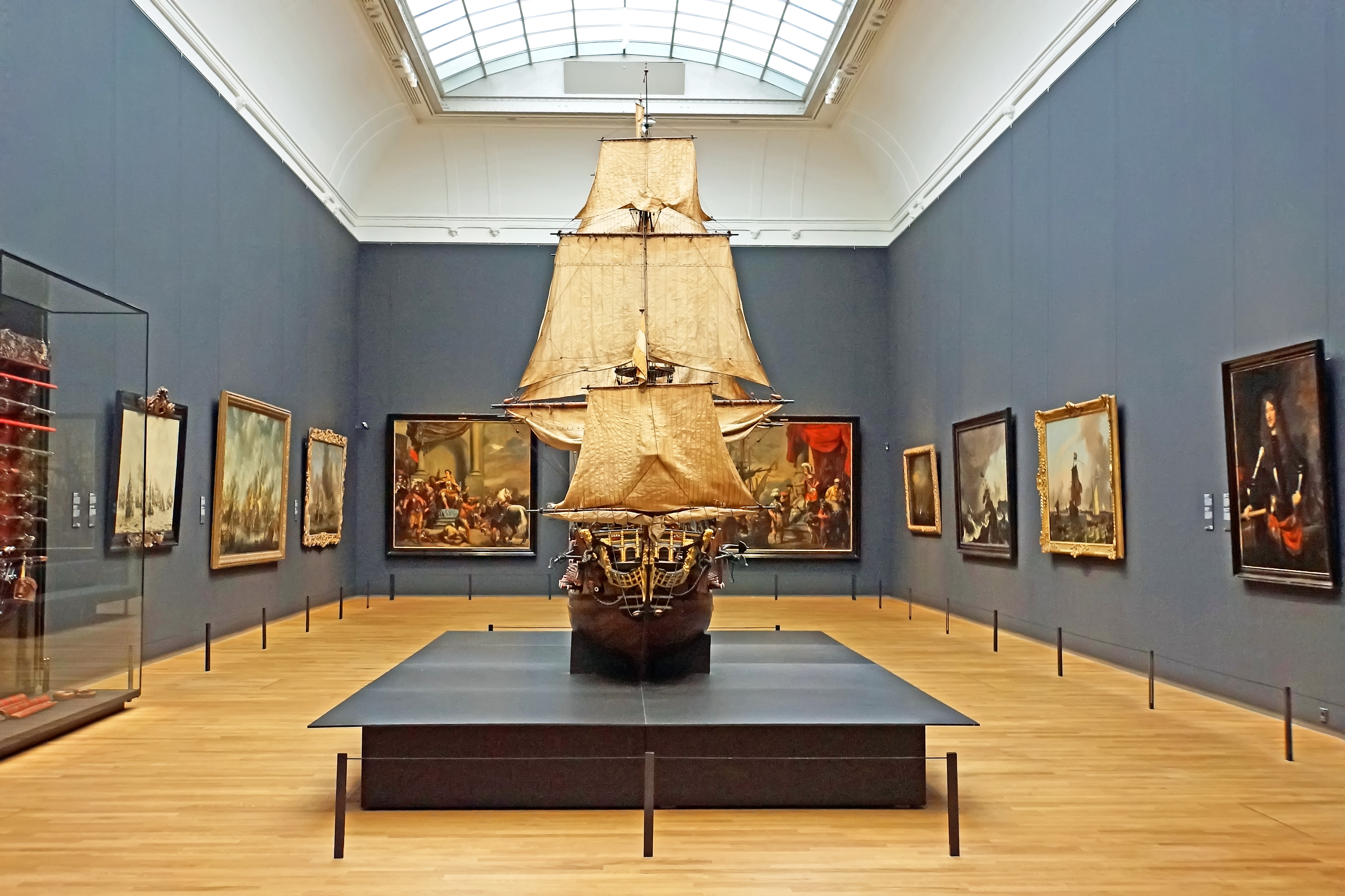 PLEASE,NO invitations or self promotions, THEY WILL BE DELETED. My photos are FREE to use, just give me credit and it would be nice if you let me know, thanks. A great gallery room at the museum, a person could spend weeks here and not see it all